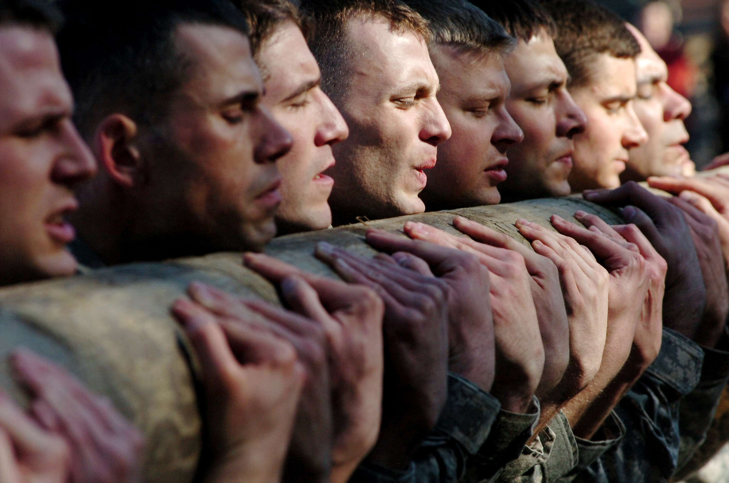 United States Army soldiers in SFAS class 04-10 participates in log and rifle PT at Camp MacKall on Wednesday, January 13, 2010.